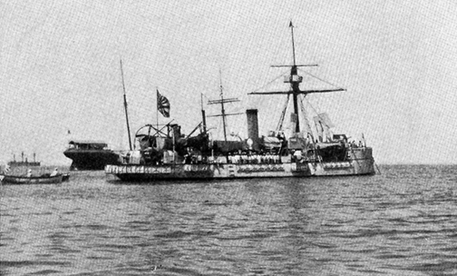 Unknown, picture probably taken 1890-1912 as the Akagi was sold in 1912.